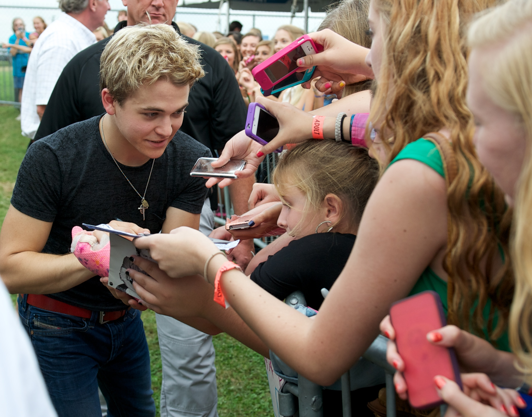 Hunter Hayes signing autographs in Mount Olivet Heights, Frederick, MD in 2012